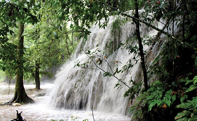 Pinandagatan Falls the hidden paradise in Sibagat, Agusan del Sur